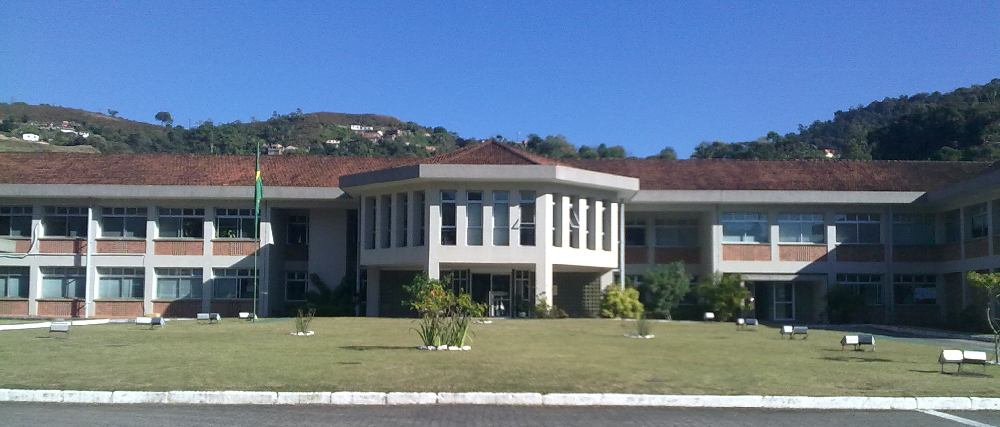 Front View of the National Laboratory for Scientific Computation, LNCC, Petrópolis, Rio de Janeiro, Brazil.